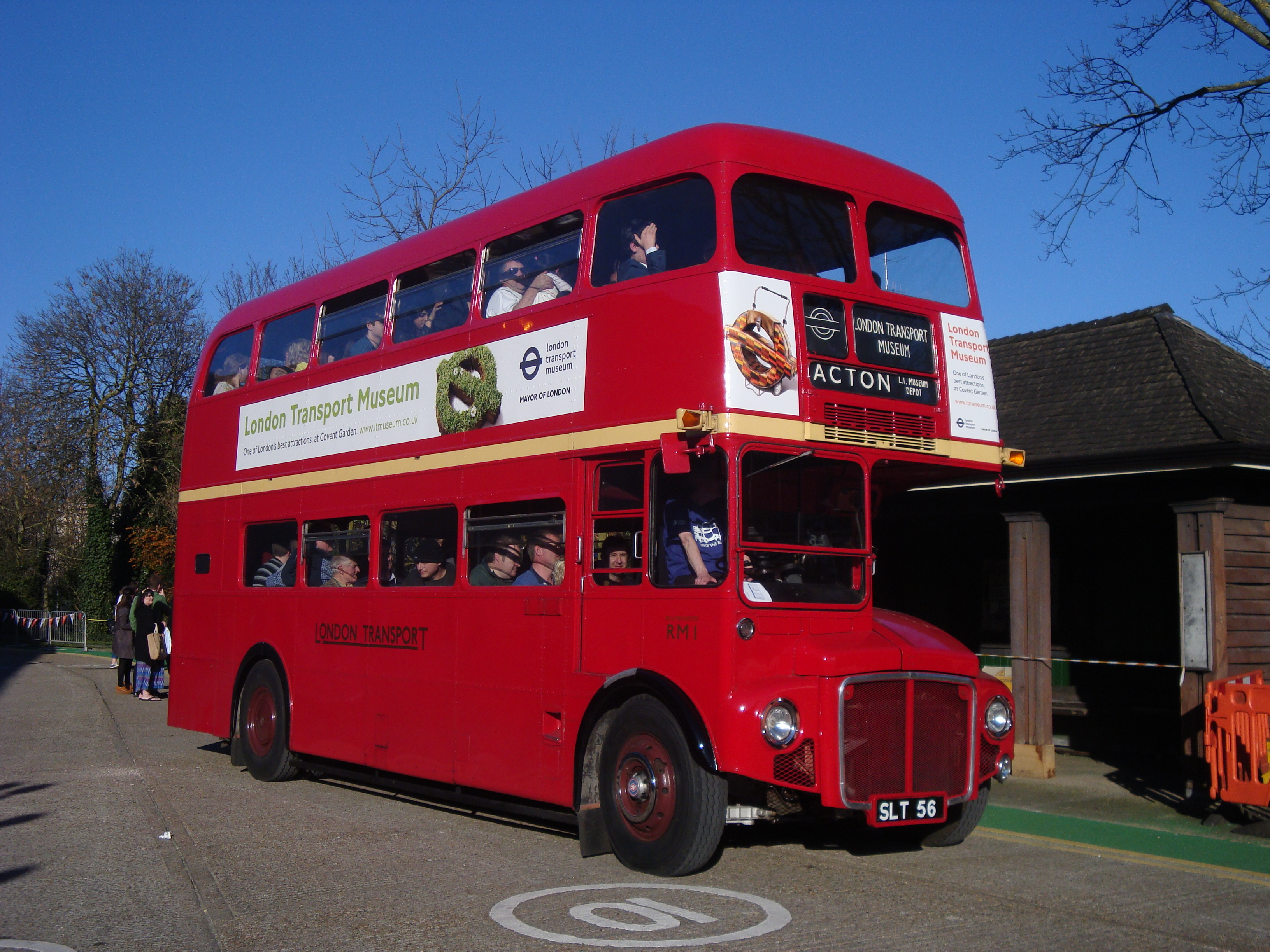 LTM RM1, Acton Town Museum Depot